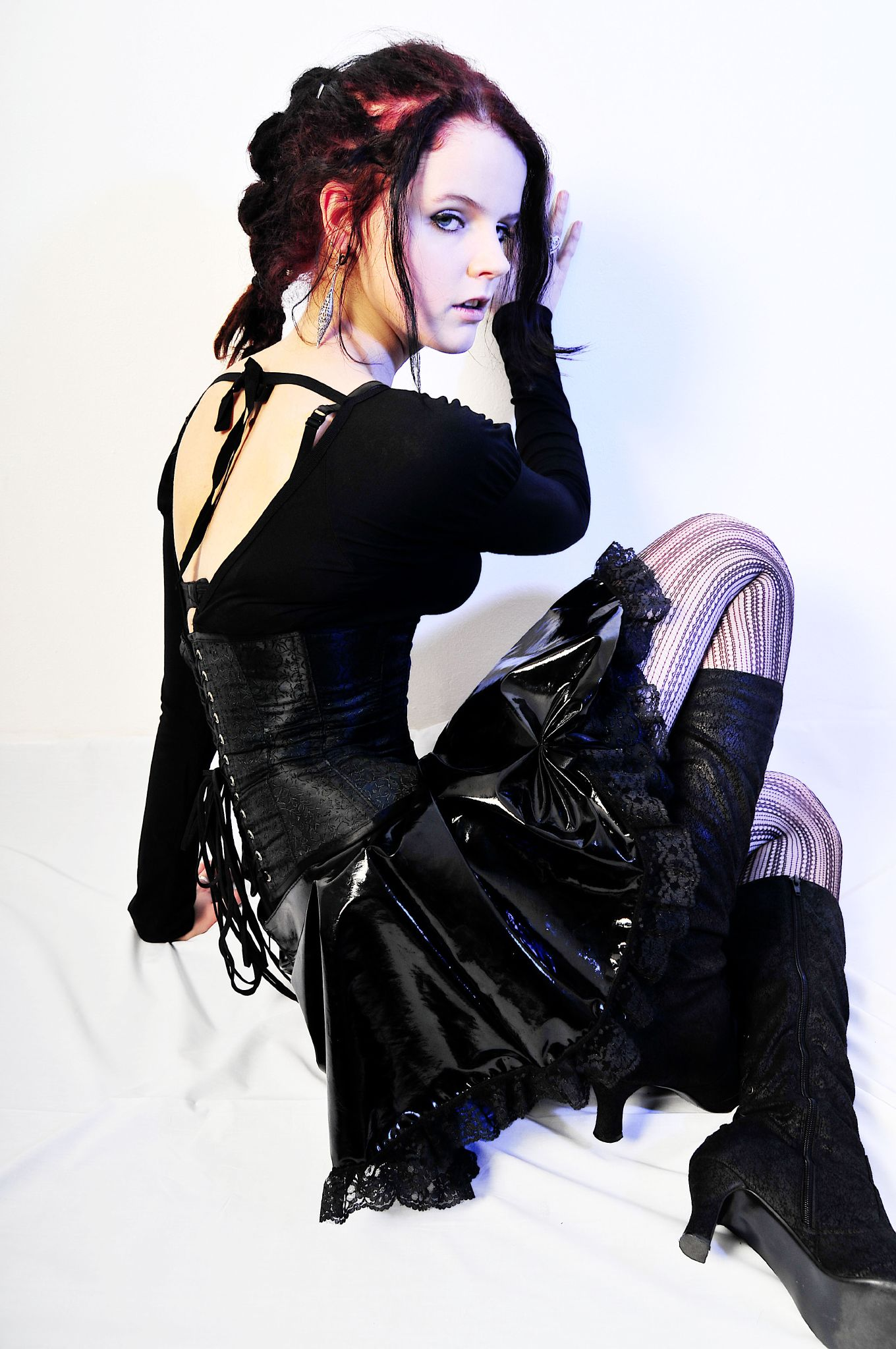 Gothic girl.